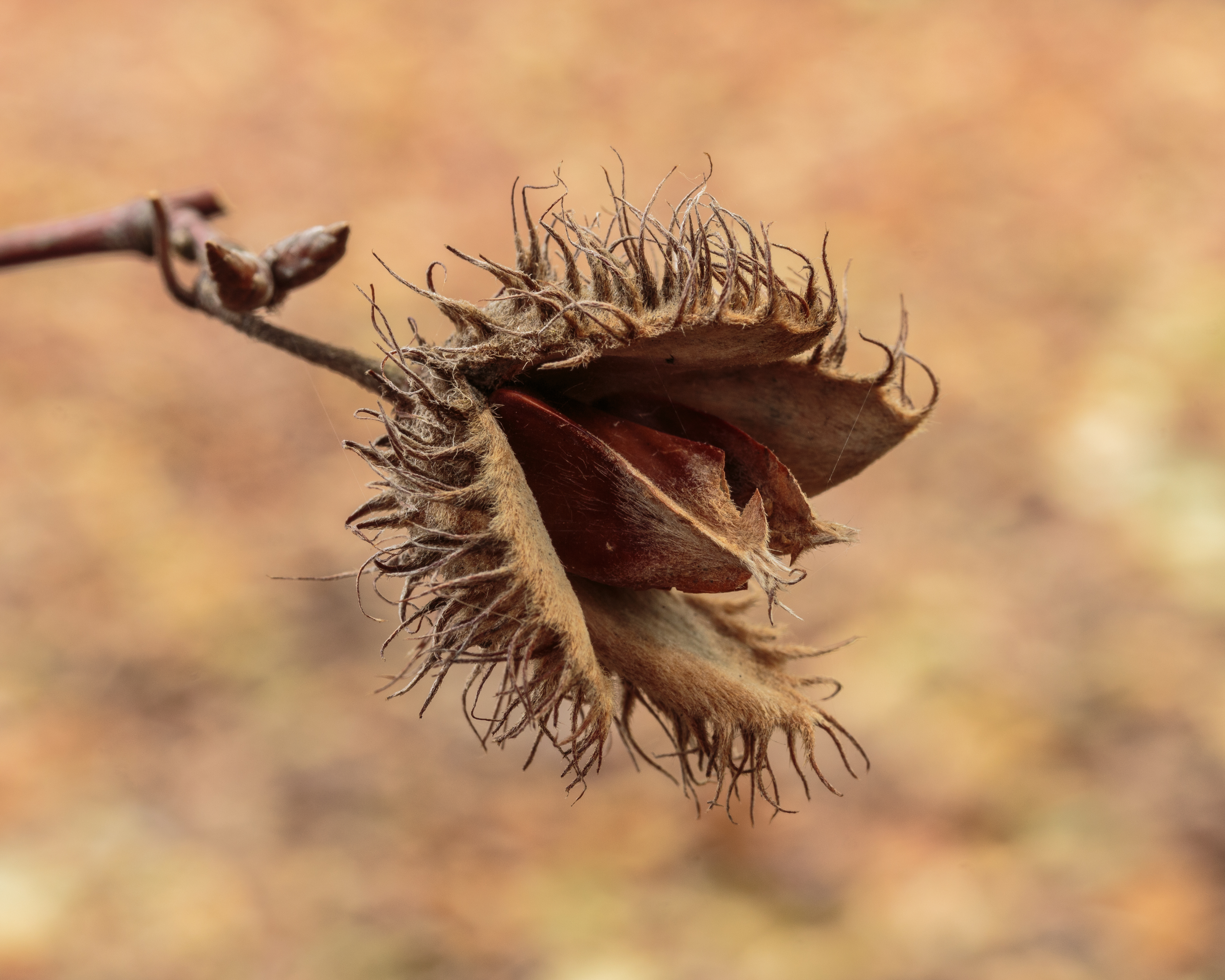 Cracked fruit (nap) of beech (Fagus sylvatica) with 2 more beech nuts.